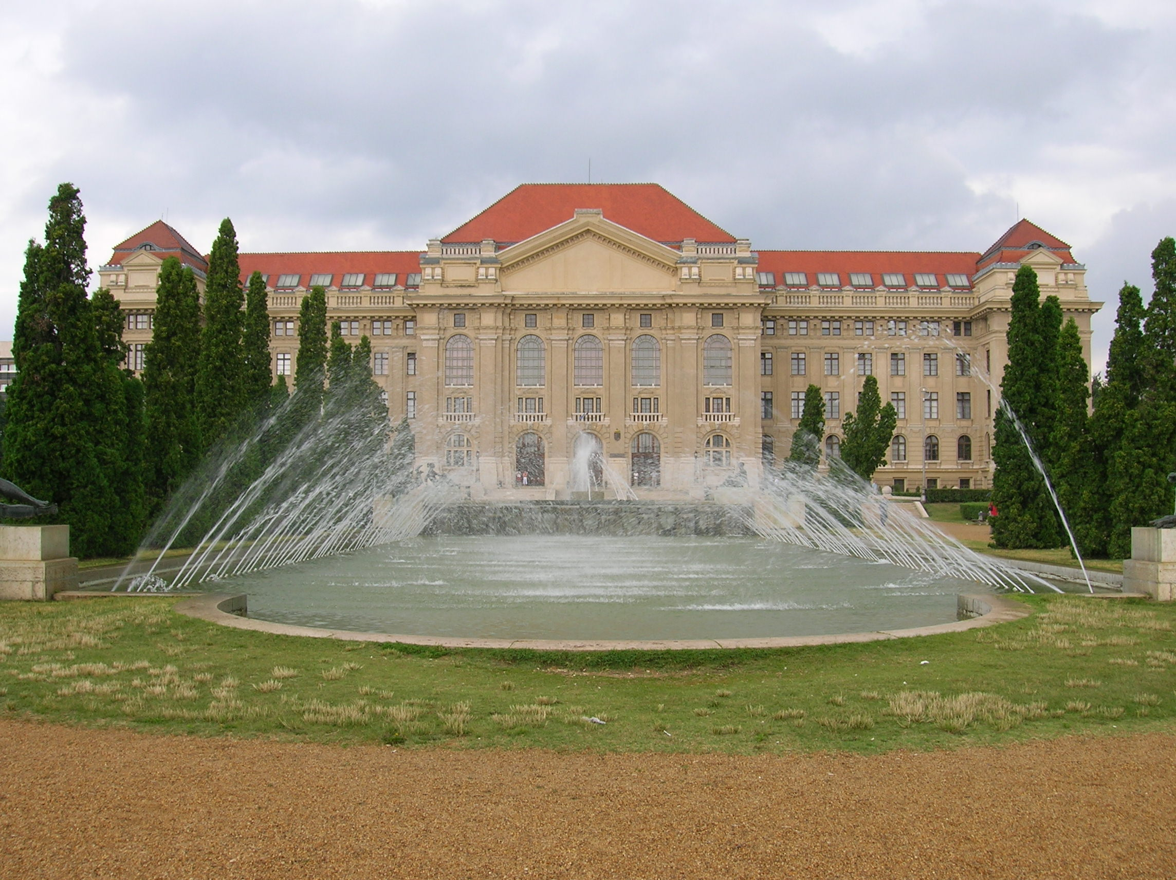 University of Debrecen, main building with fountain